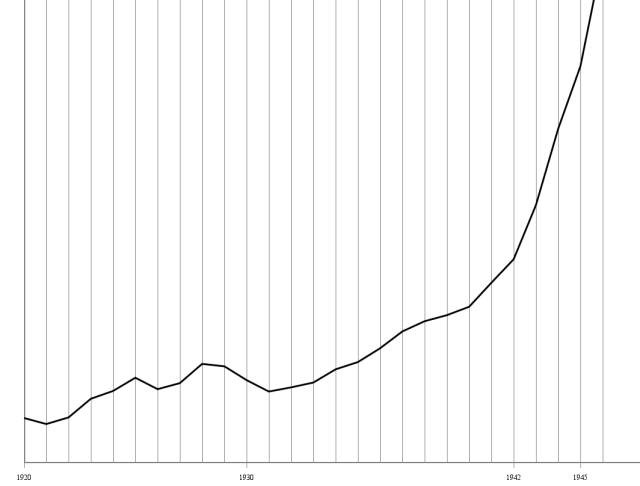 Growth of Brazilian GDP during 1920-1946. Data of IBGE.